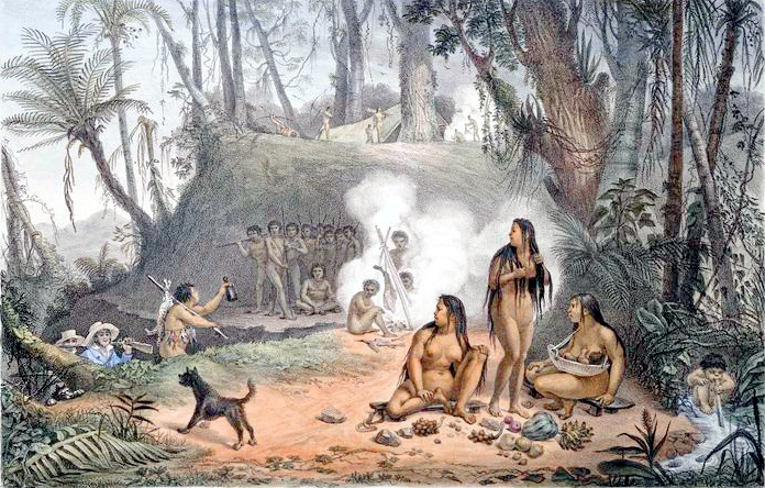 Title of work: Indian encampment/village in . In: Voyage pittoresque et historique au Brésil, ou Séjour d'un artiste français au Brésil, depuis 1816 jusqu'en 1831 inclusivement, epoques de l'avènement et de l'abdication de S. M. D. Pedro 1er, fondateur de l'Empire brésilien. Dédié à l'Académie des Beaux-Arts de l'Institut de France. (published 1834-1839) Library Division: Humanities and Social Sciences Library / Print Collection, Miriam and Ira D. Wallach Division of Art, Prints and Photographs Description: 3 v. facsim., map, 2 plans, port. 50 cm. and 6 portfolios (153 plates) (incl. ports.) 59 cm. Item/Page/Plate Number: I/Pl. 6 Medium: Lithographs -- Hand-colored Specific Material Type: Prints Subject(s): Brazil Cantagalo (Rio de Janeiro, Brazil) Indians of South America -- Dwellings Indians of South America -- Social life and customs Villages Additional Name(s): Debret, Jean Baptiste, 1768-1848 -- Artist Debret, Jean Baptiste, 1768-1848 -- Author Collection Guide: The Luso-Hispanic New World in Early Prints and Photographs Digital Image ID: 1224051 Digital Record ID: 568679 Digital Record Published: 8-17-2004; updated 10-3-2007